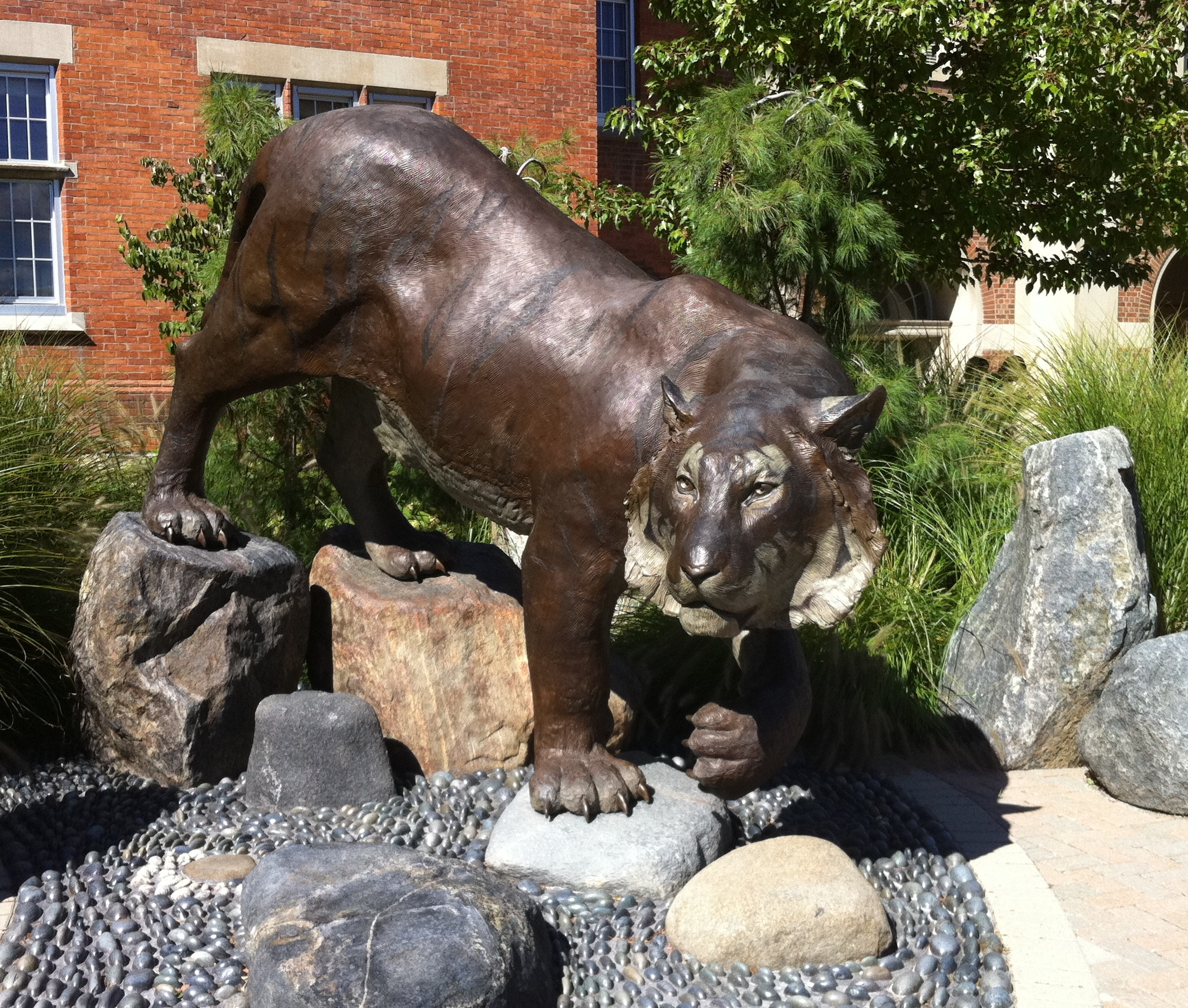 Ridley's mascot, Hank.